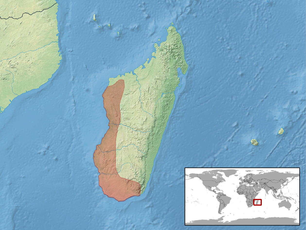 geographic distribution of Paroedura bastardi (Native: Madagascar)